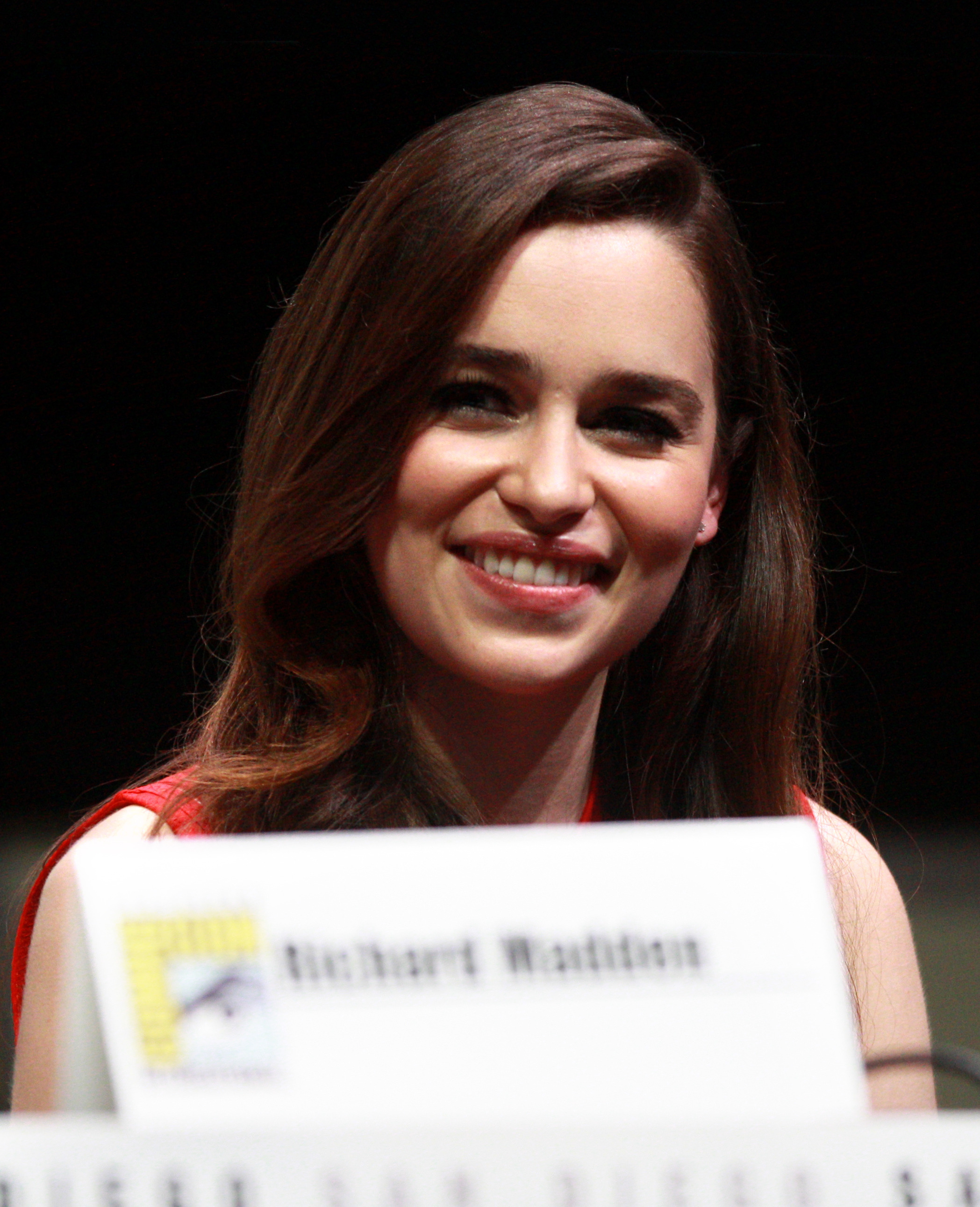 Emilia Clarke at the 2013 San Diego Comic Con International in San Diego, California.